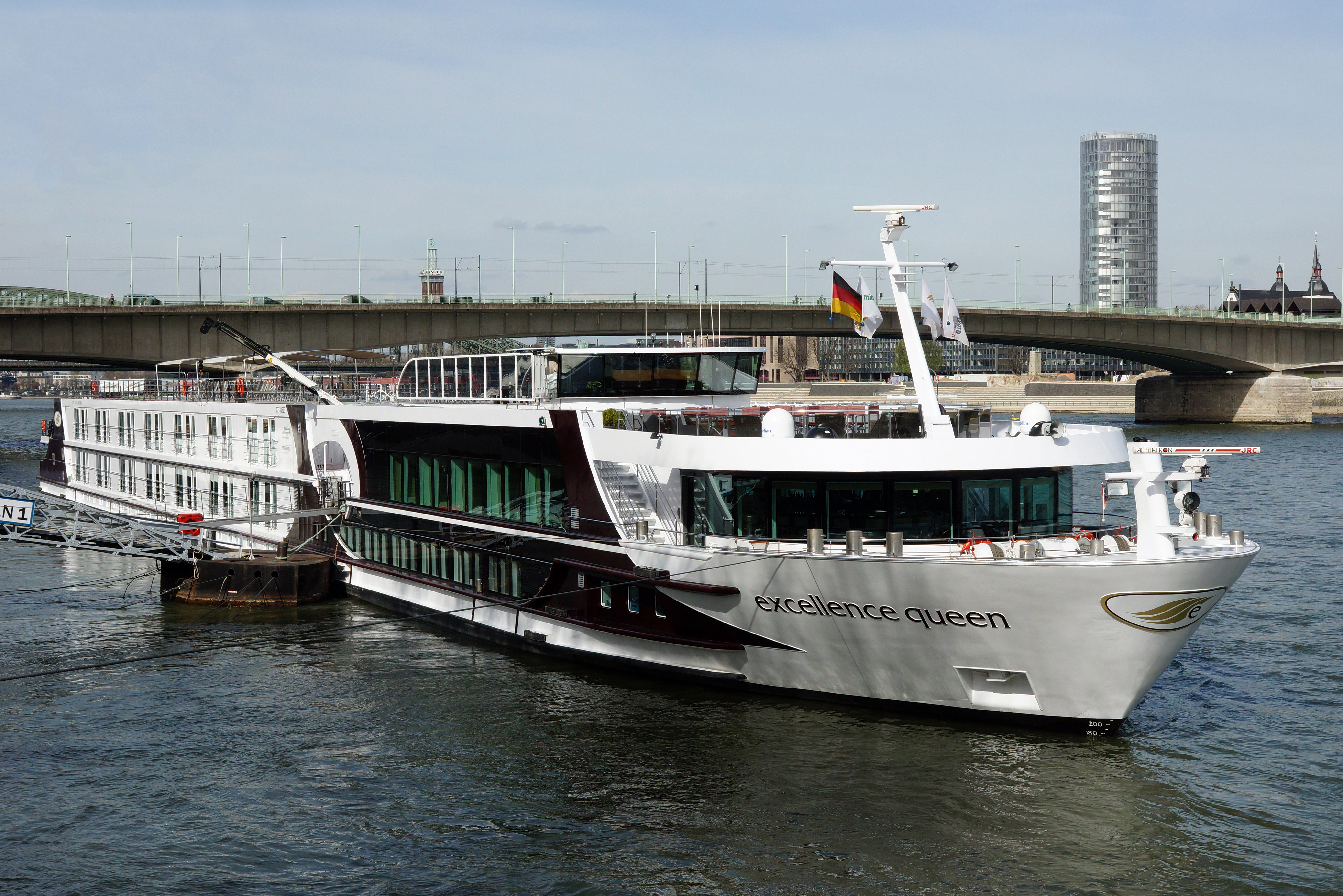 River cruise ship Excellence Queen in Cologne.